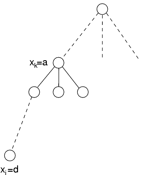 The search tree of a backtracking algorithm. Together with the following image, it shows that some consistency checks can be avoided because the next time xi is evaluated, part of the assigment is the same